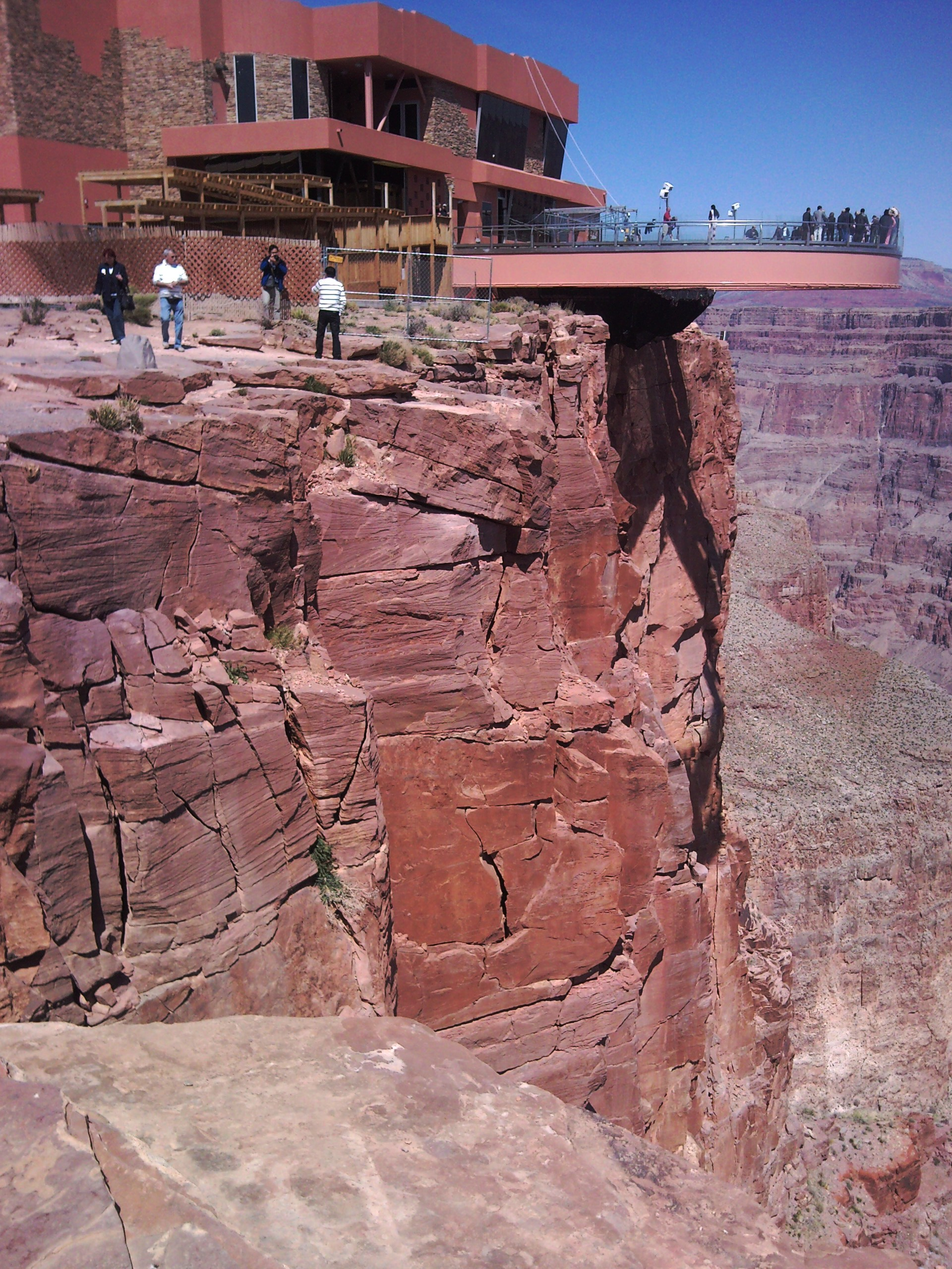 Grand Canyon West - Skywalk